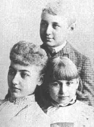 Photograph of Abraham Lincoln II(top) and his sisters, Mary "Mamie" Lincoln(left) and Jessie Harlan Lincoln(right)